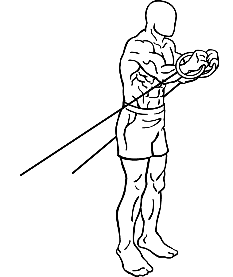 an exercise of chest